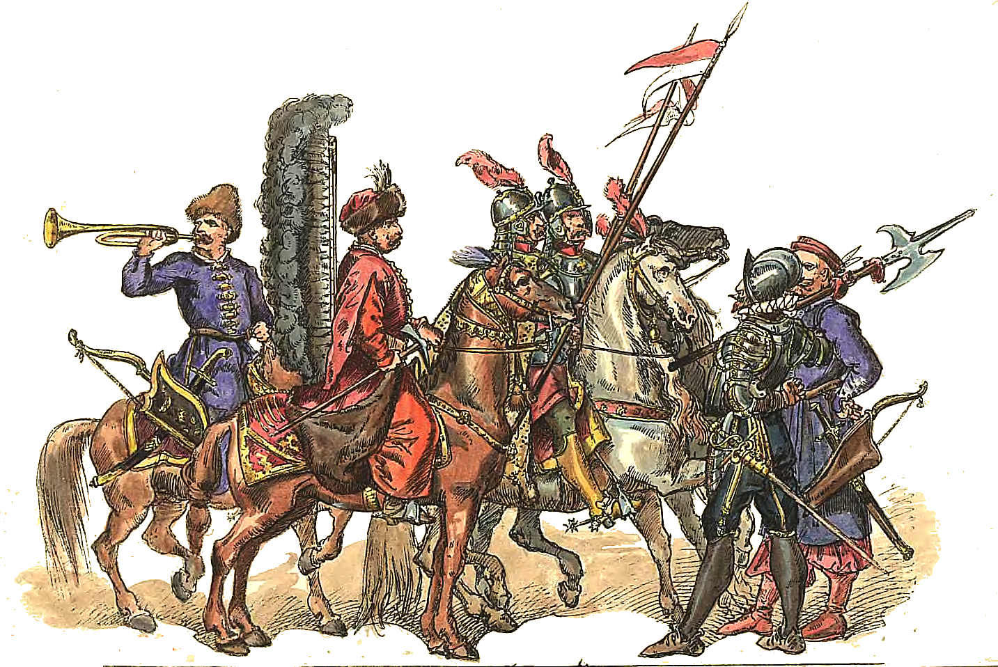 Polish soldiers 1588-1632